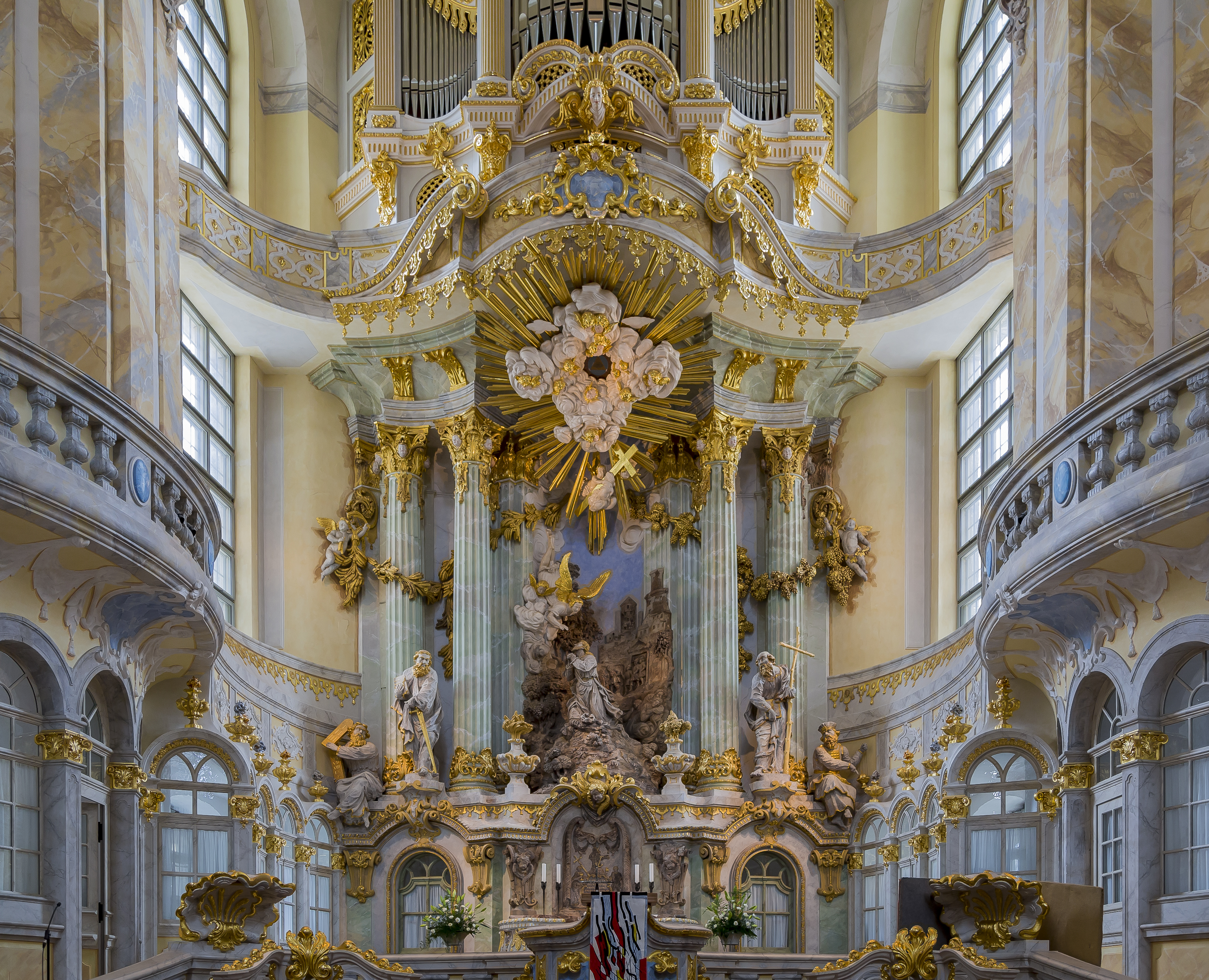 Dresden, Germany: Inside view of Frauenkirche